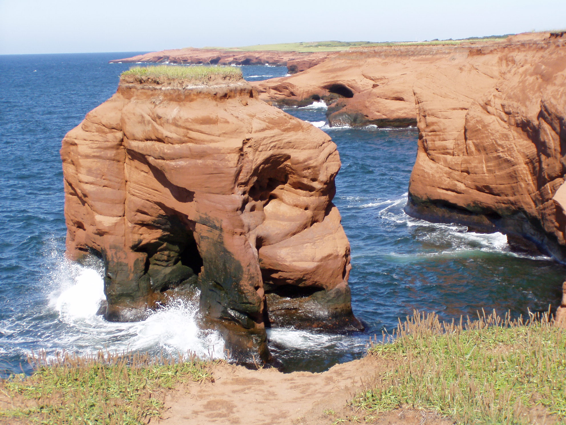 Stack carved by the sea at Cap-au-Trou, Fatima, Cap-aux-Meules Island, Magdalen Islands, Québec, Canada .